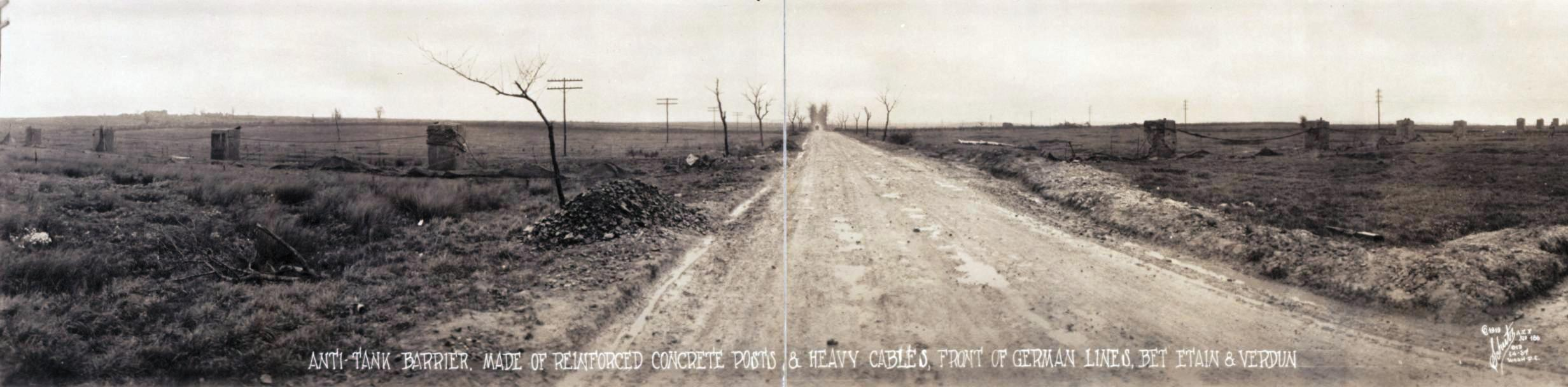 Anti-tank barrier, made of reinforced concrete posts & heavy cables, front of German lines, Bet Etain & Verdun.